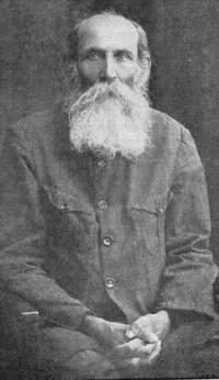 A. D. Gordon